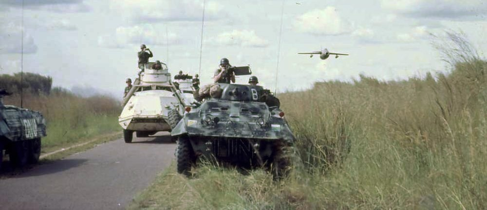 Swedish soldiers advancing upon Kaminaville